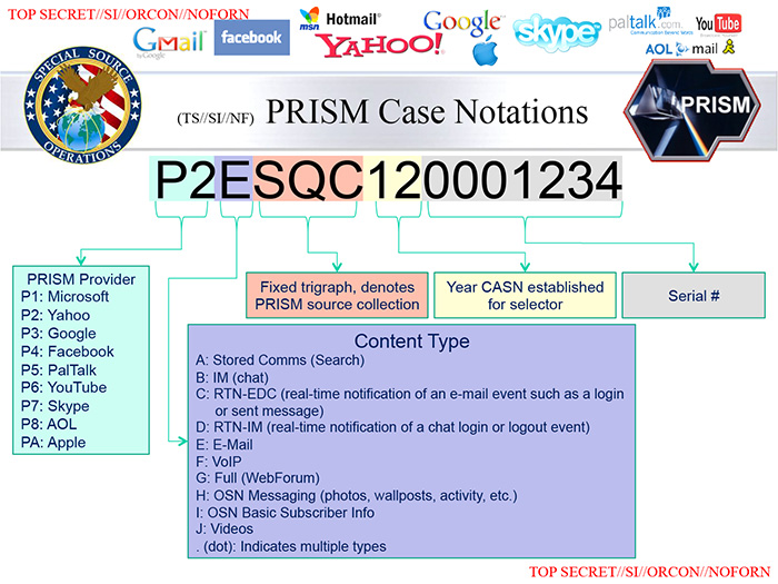 Slide illustrating how PRISM cases are named